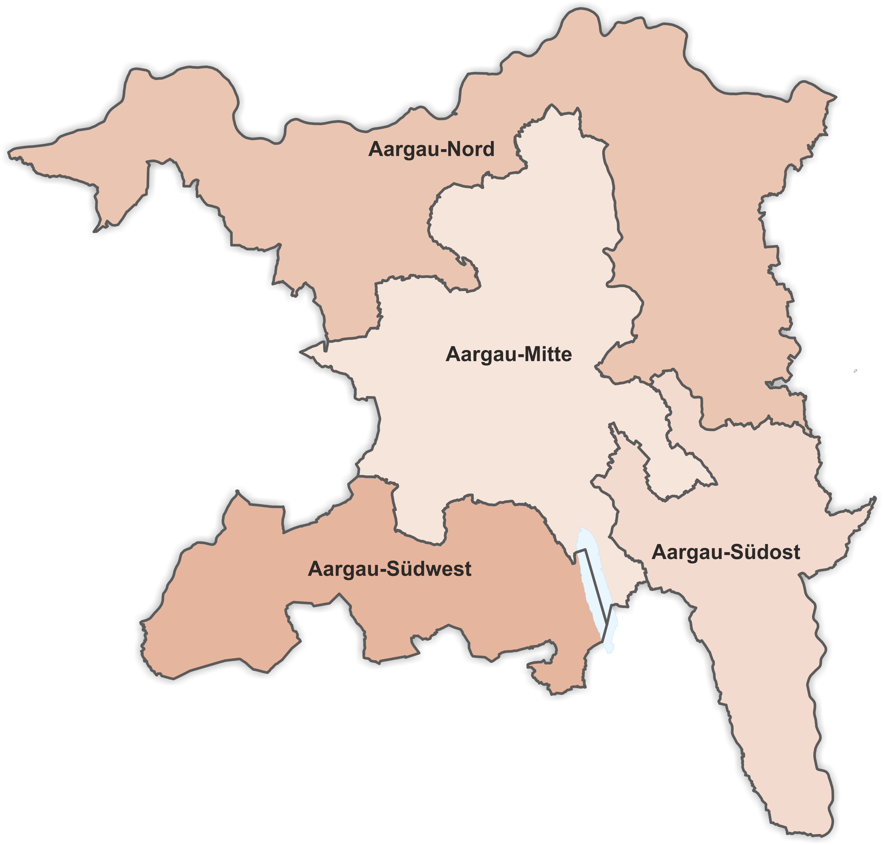 National council constituencies in the canton of Aargau from 1911 to 1917